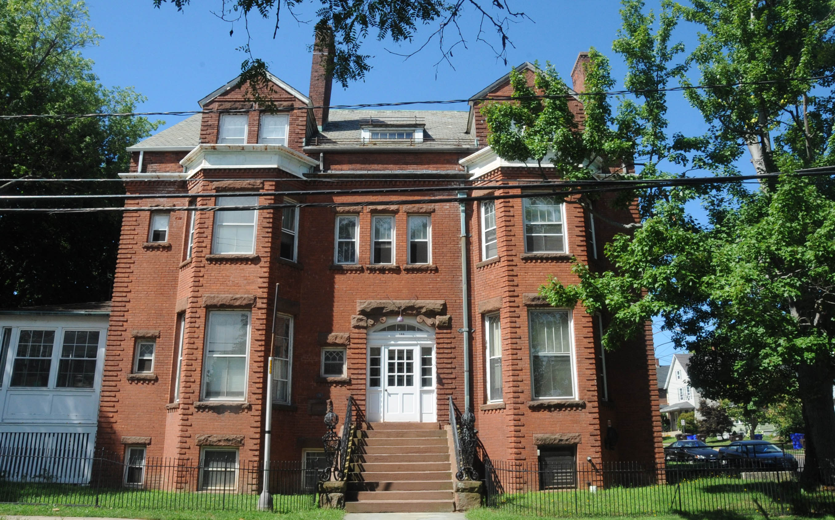 Saint Luke's Home for Destitute and Aged Women, 135 Pearl Street, Middletown, Connecticut. "In 1892 a large legacy enabled a new home to be erected at the present site at Pearl and Lincoln Streets. Comfortable quarters are provided for fourteen women. Members of the Church of the Holy Trinity played a large part in establishing the endowment; frequently the current rector of that church serves as president of the board of trustees."